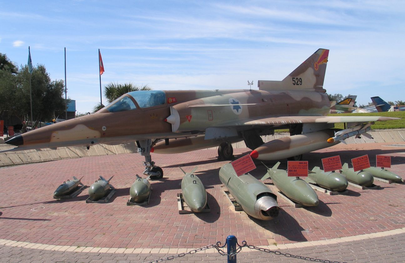 An Israel Aircraft Industries Kfir C2 at the Muzeyon Heyl ha-Avir (Israeli Air Force Museum), Hatzerim Air Base, Israel, in 2006.